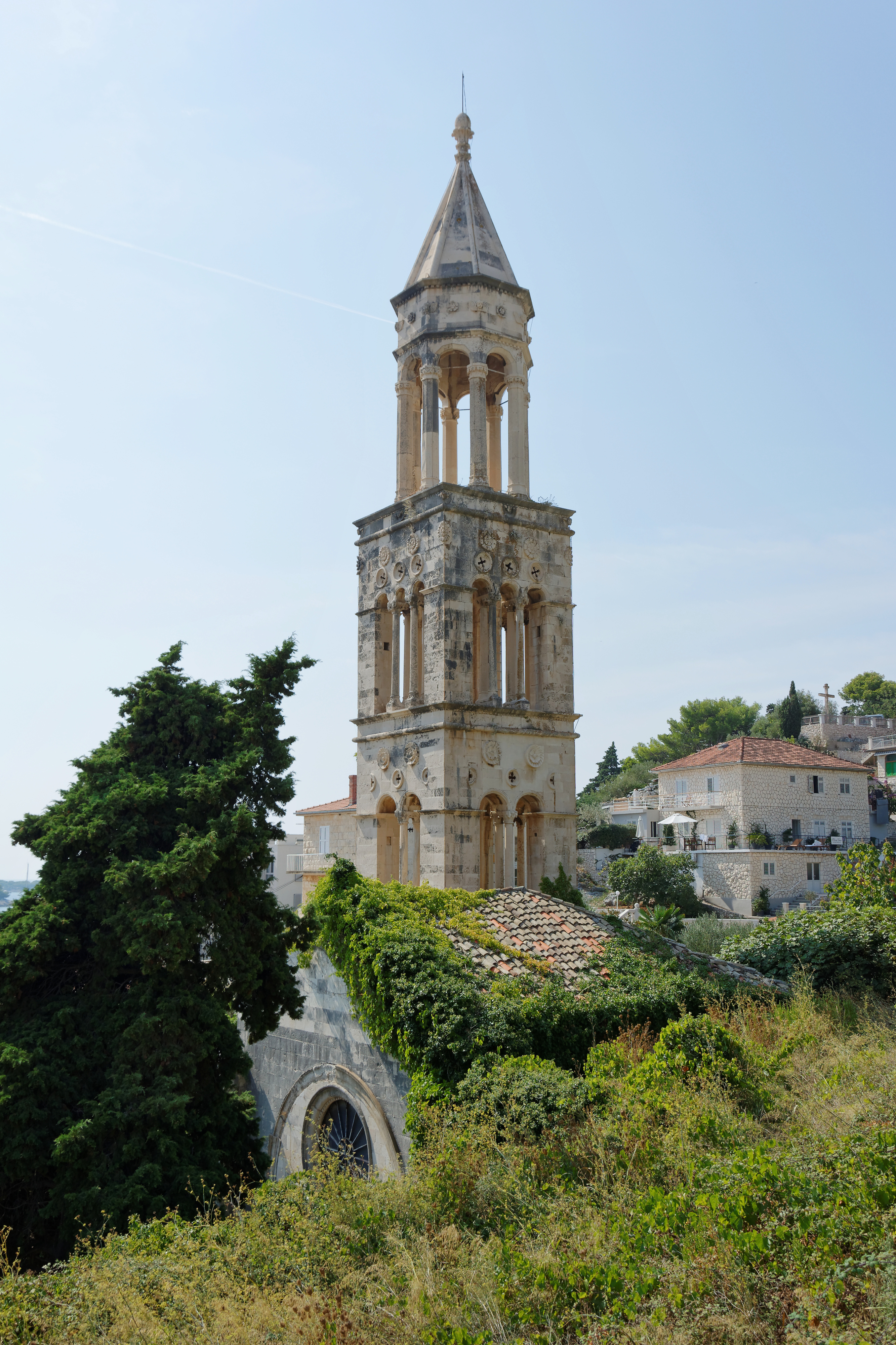 Ruins of the Dominican Monastery and St. Mark's Church, Hvar, Hvar island, Croatia.